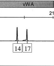 The vWA locus of a genetic profile typed using Applied Biosystems' Identifiler kit when viewed in GeneMapper ID. The X-axis represents the length of the STR fragments, the Y-axis is the intensity of the signal.